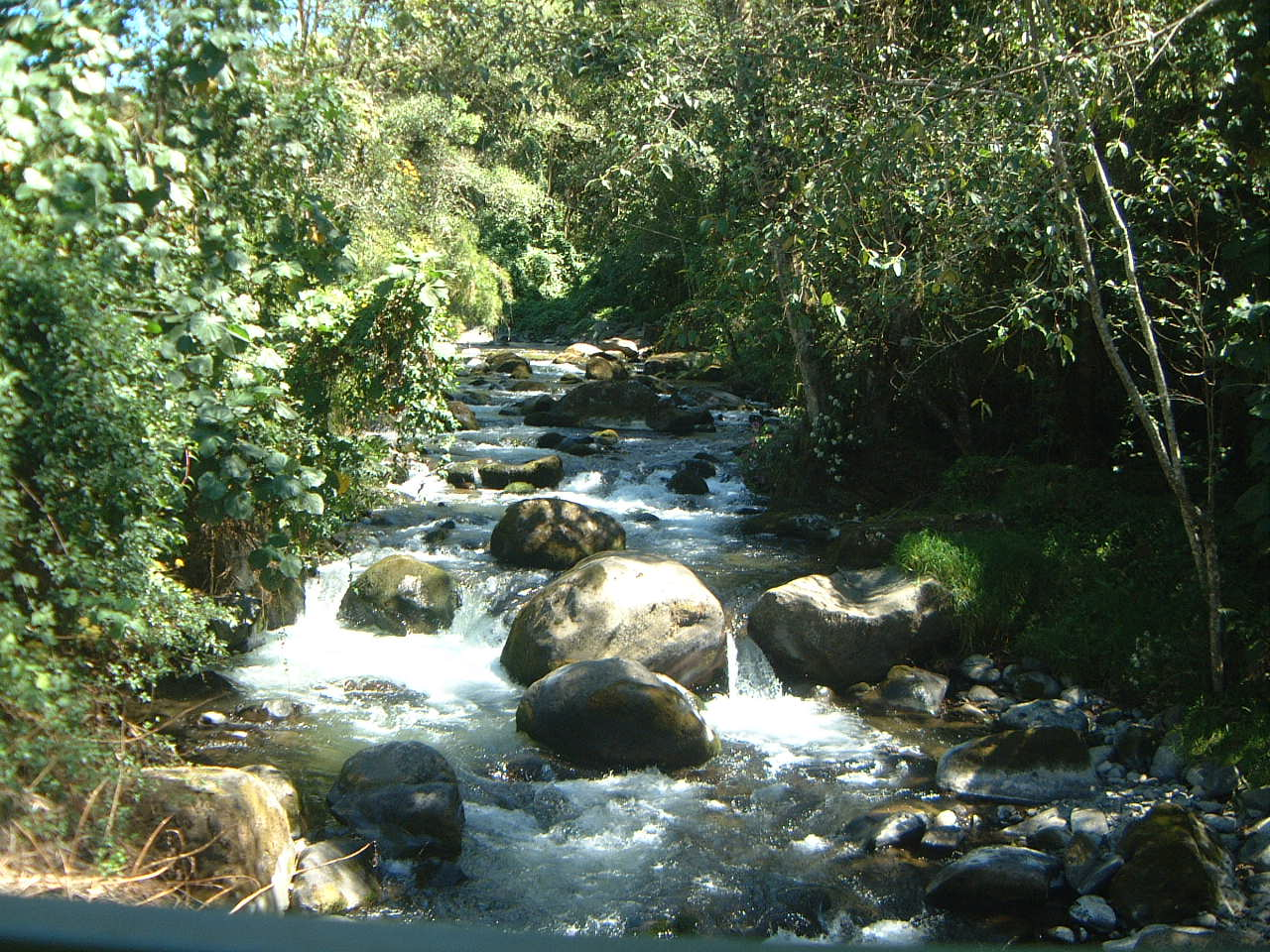 Stream at Savegre, Costa Rica; habitat of Serpophaga cinerea. My image, February 2006 jimfbleak 06:19, 28 March 2006 (UTC)